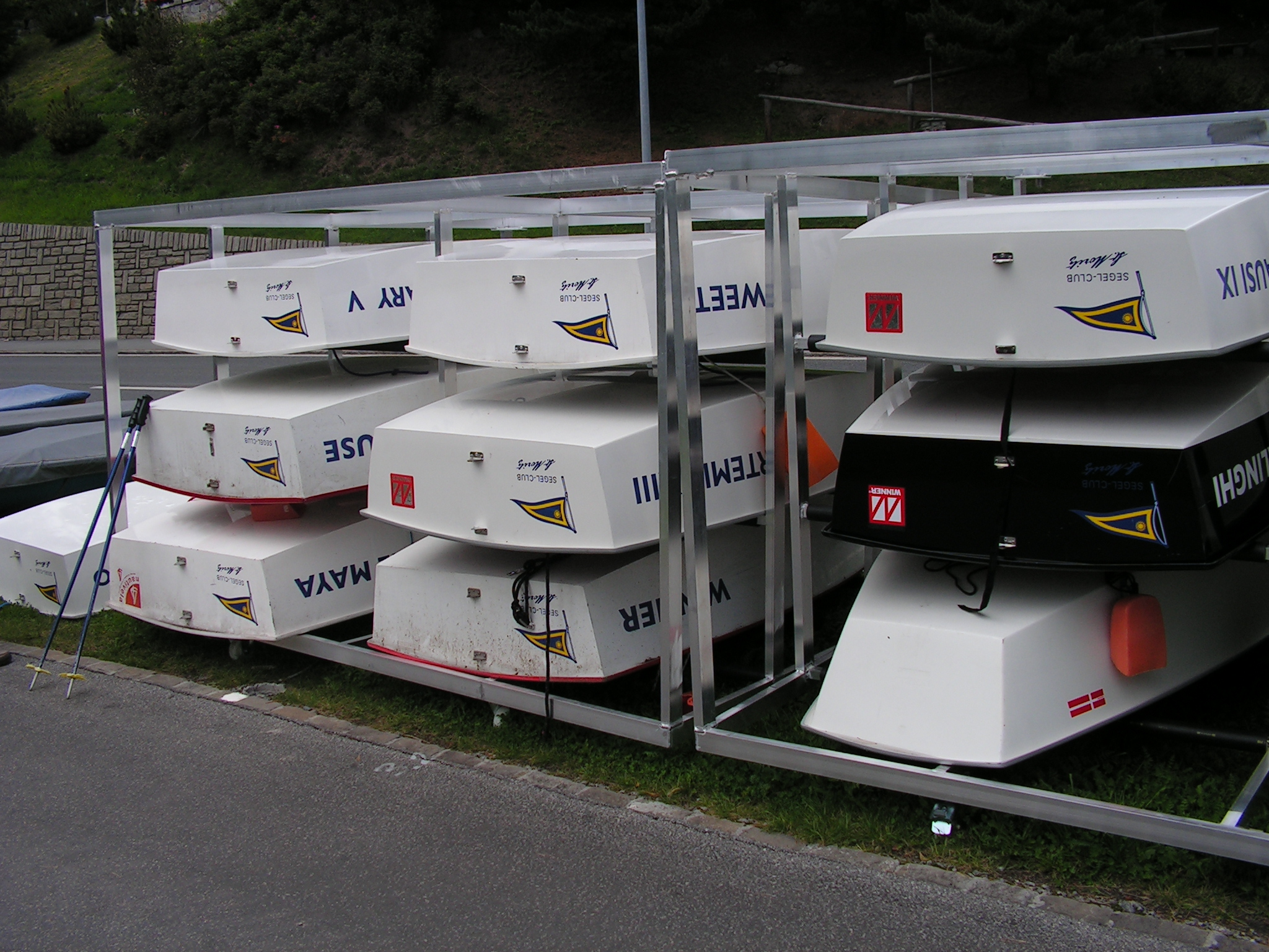 A rack for Optimist on the shore of the Lake of Sankt Moritz